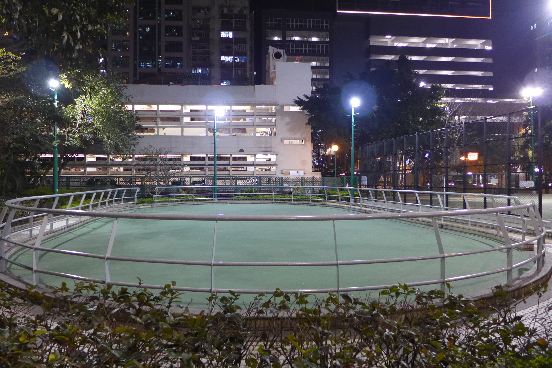 Tsun Yip Street Playground